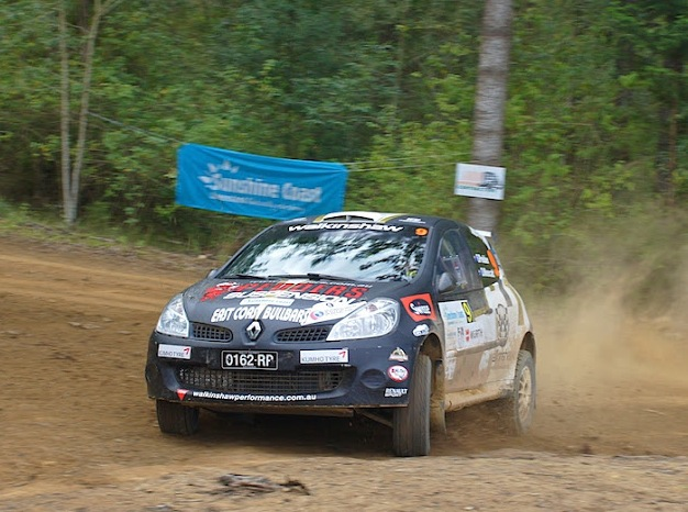 Scott Pedder and Dale Moscatt, International Rally of Queensland, June 2014